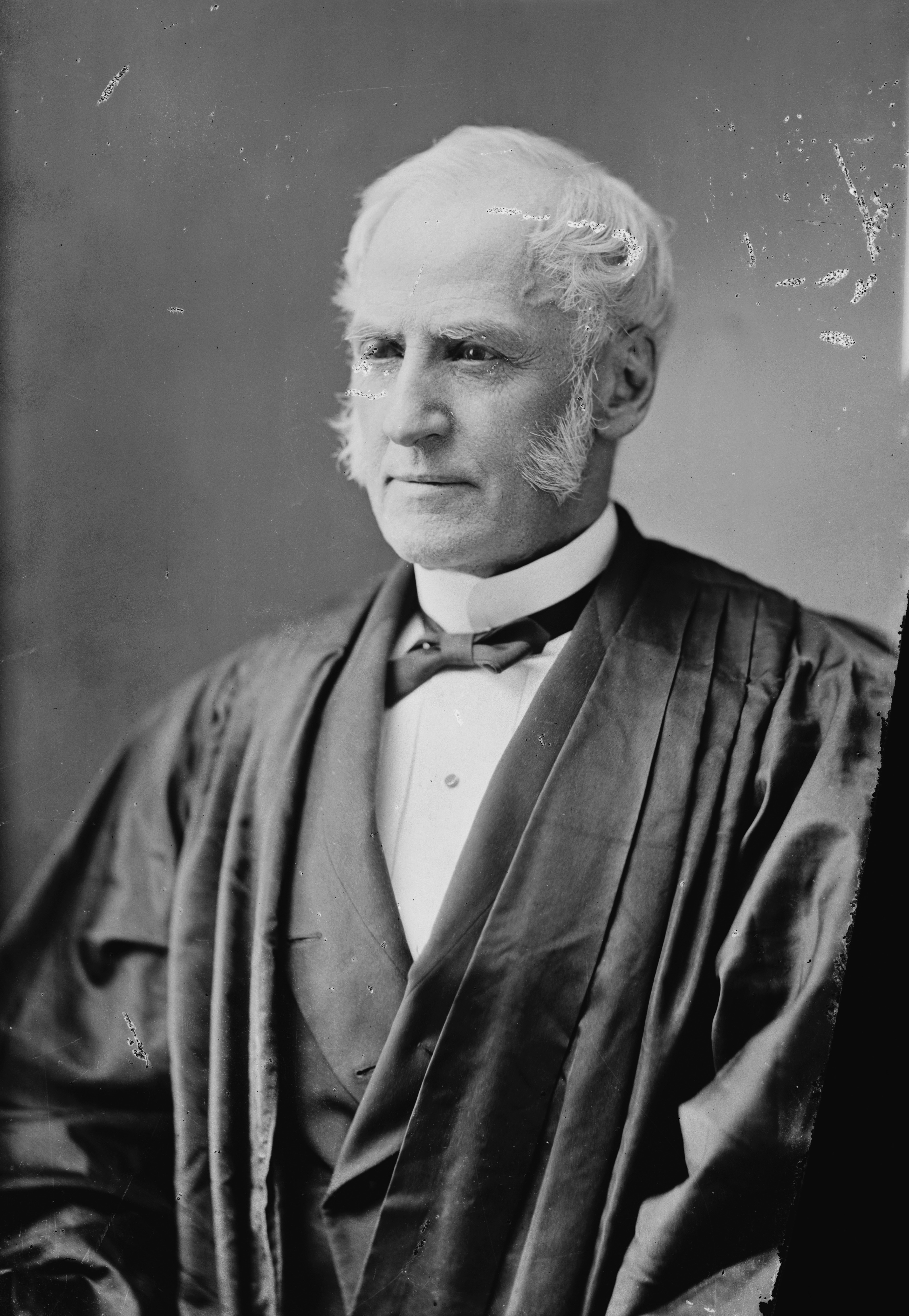 Ward Hunt. Library of Congress description: "Hunt, Judge Ward".